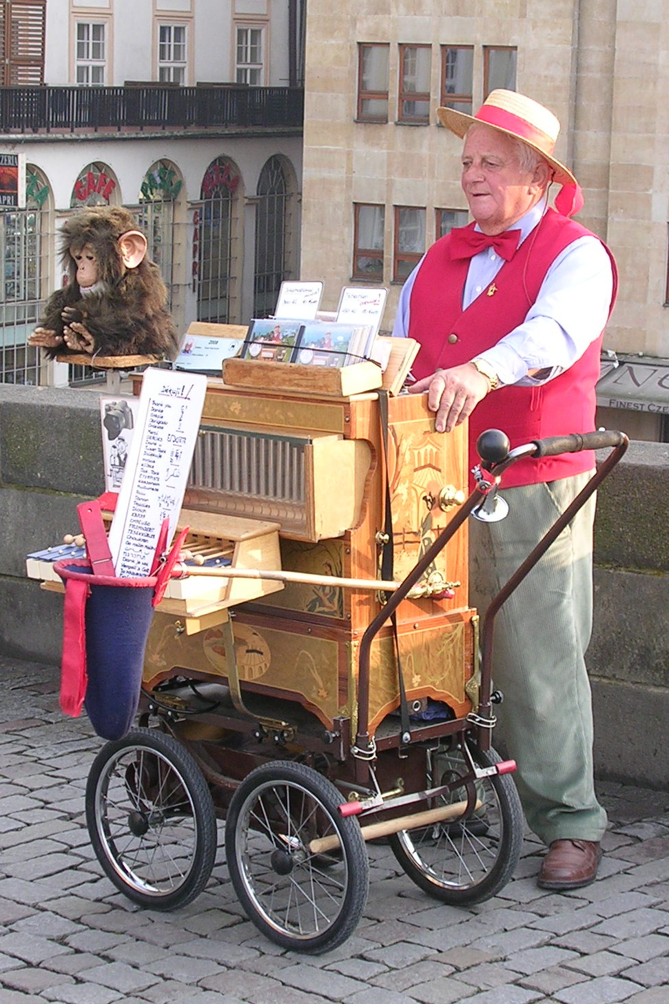 Old Town, Prague. Charles bridge. Organ grinder.